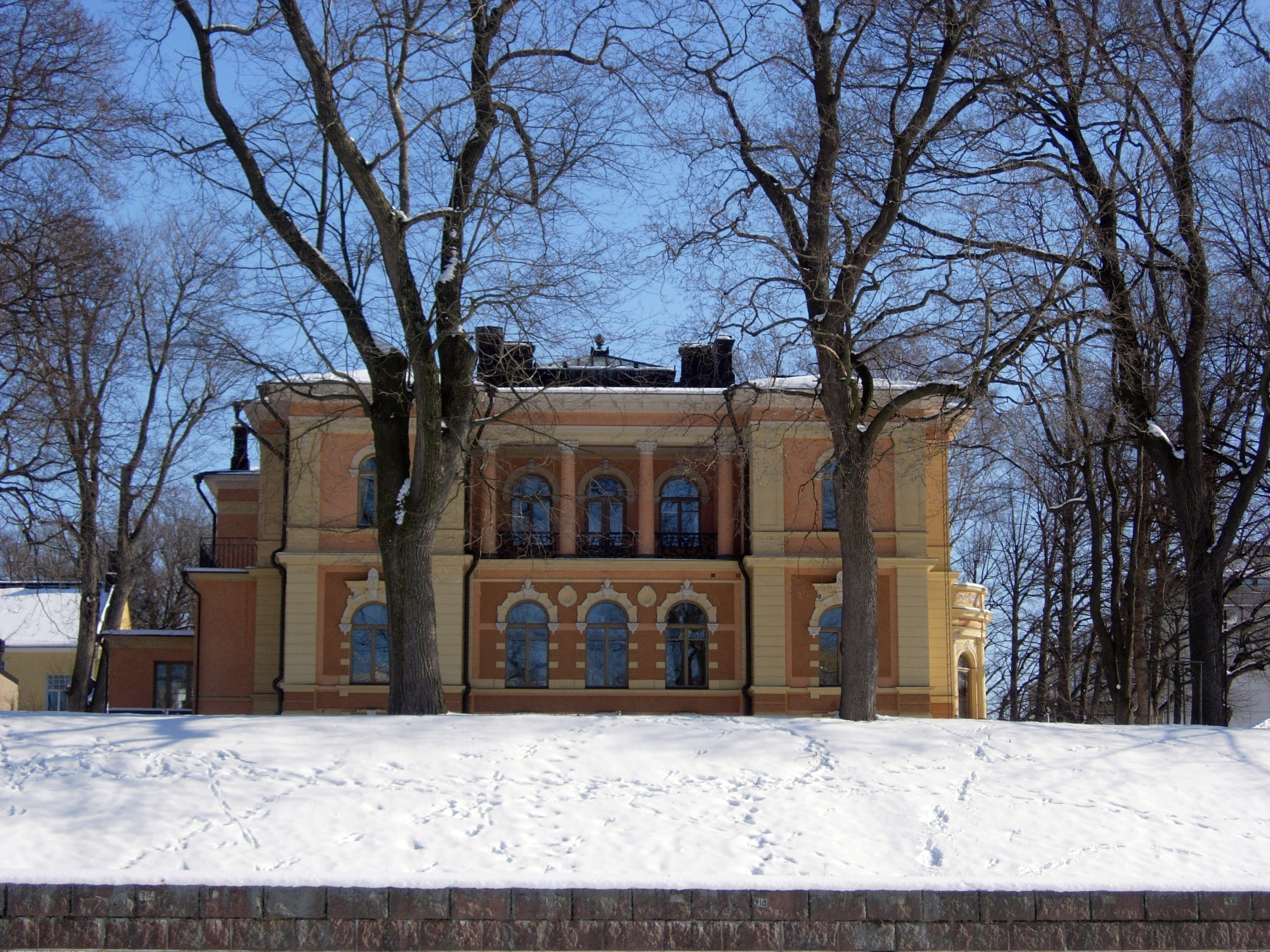 Humanisticum, a building of Åbo Akademi